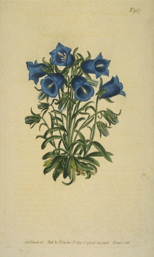 Campanula alpina